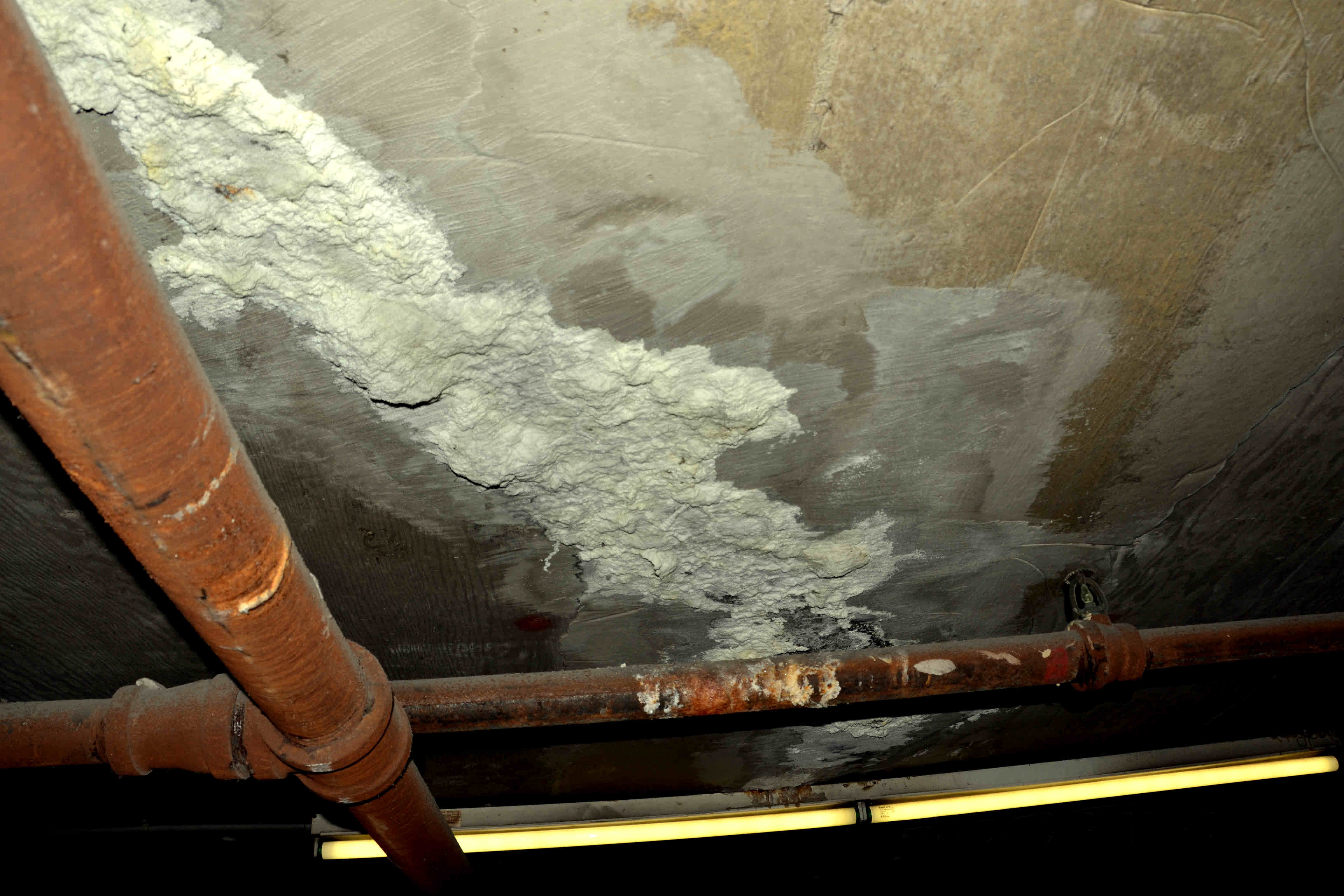 Secondary efflorescence, washing out components of cement stone, thus weakening the concrete. In this case, remedial work has already been done once, as can be seen in the concrete patches. But the cause for this "concrete osteoporosis" was not fixed, which means that the damage continues. It is possible to prevent this problem through a better concrete mix design as well as through the use of an impervious, covalent barrier on top. This is the bottom of a slab as seen from the second level of parking in a hotel in Ottawa, Ontario, Canada. Cars with road salt drive in on the upper level, the salty water comes off the cars and then wash out minerals from the cement stone, which winds up as ugly-looking tumors below. The tumor analogy is apt, because, if unchecked, this process will continue to weaken the concrete. In primary efflorescence, one only loses matter that odes not get bound in the cement stone. In secondary efflorescence, one loses matter that originally made the concrete strong.